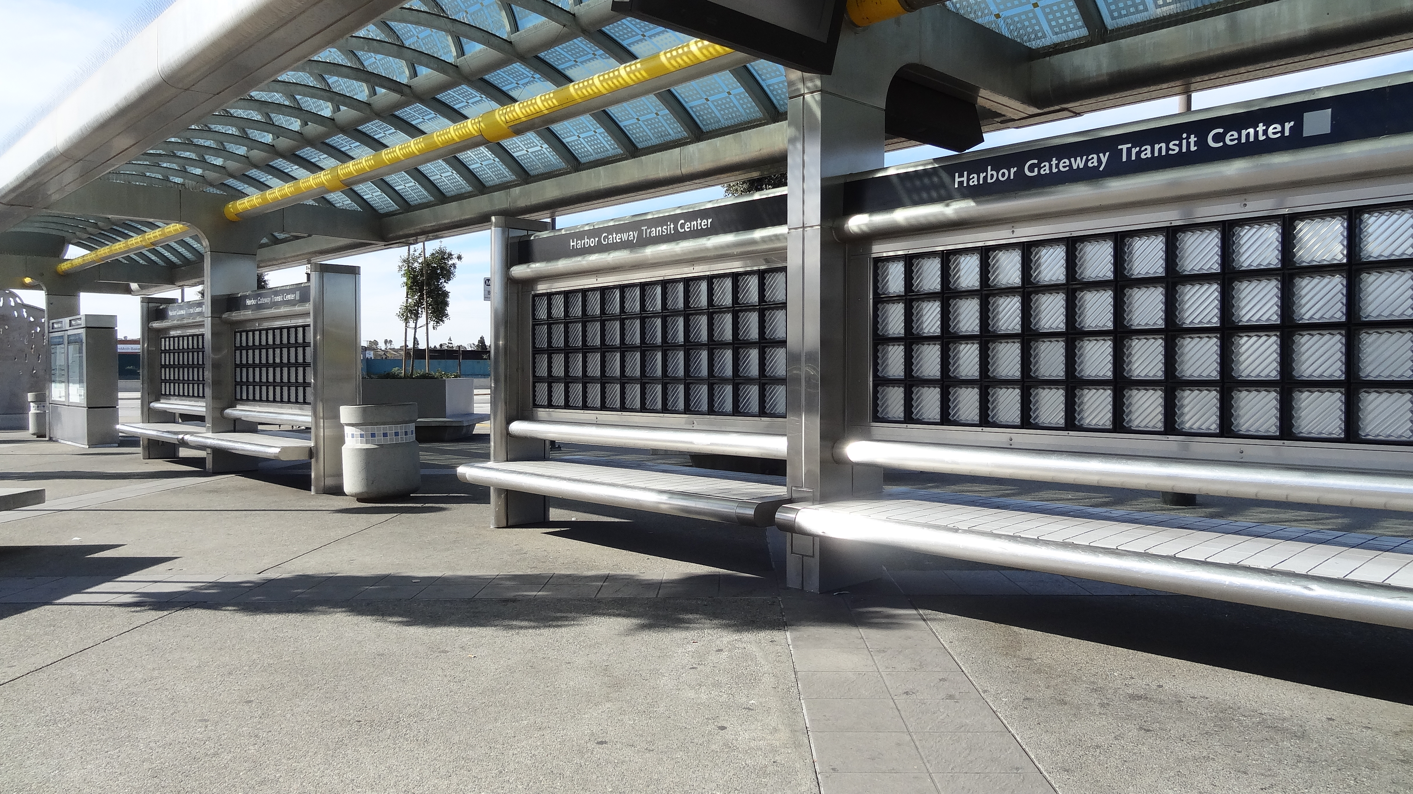 Improved signage installed at the Harbor Gateway Transit Center.